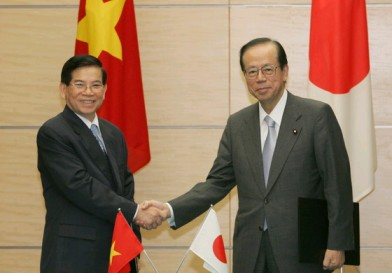 Yasuo Fukuda, Prime Minister, shook hands with Nguyễn Minh Triết, President, after signing the Joint Statement on the Deepening Relations between Japan and Vietnam at the Prime Minister's Official Residence in Chiyoda Ward, Tōkyō Metropolis on November 27, 2007.